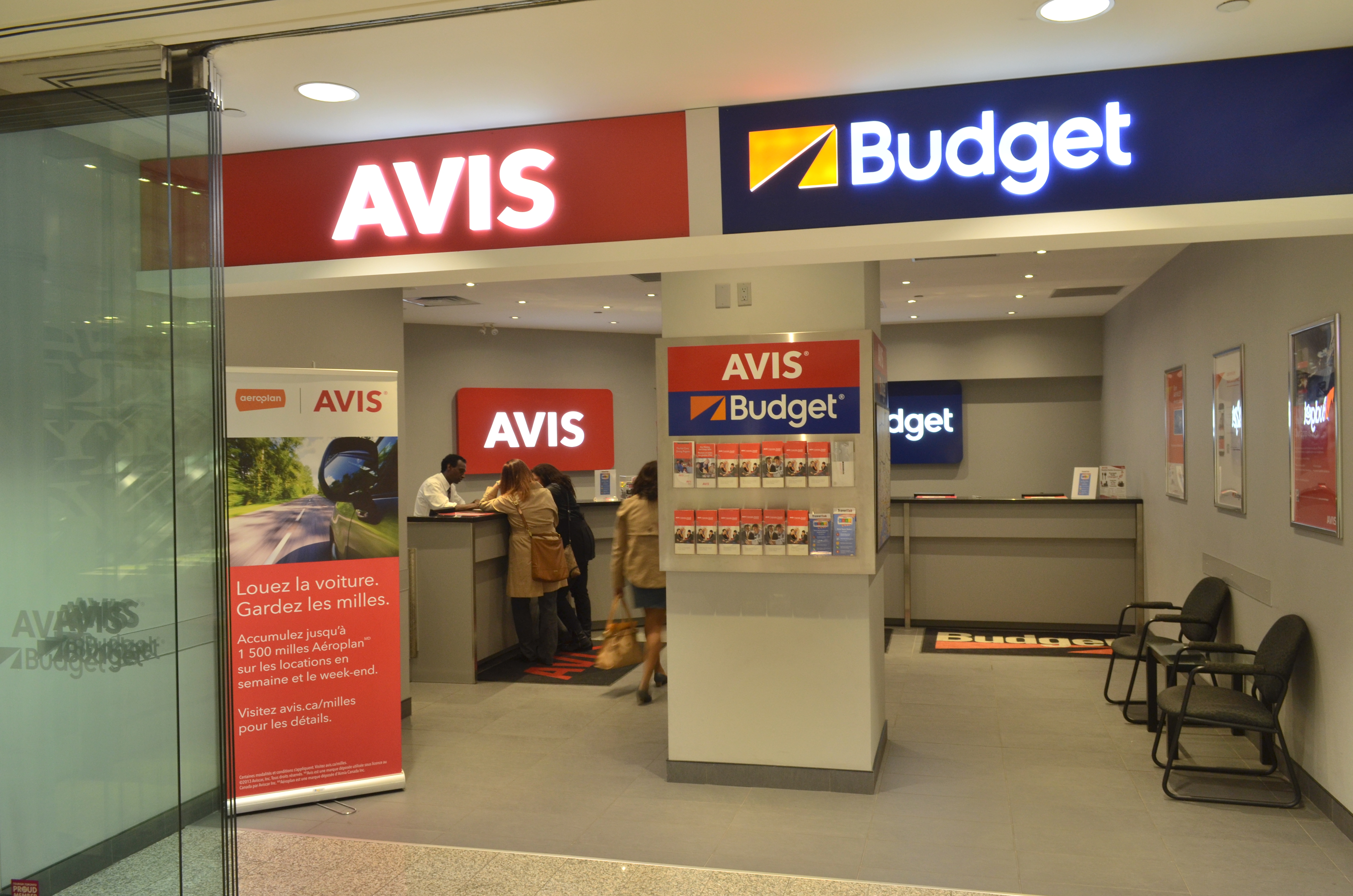 Avis Budget Group - 161 Bay St Unit 140 BCE (Brookfield Place)